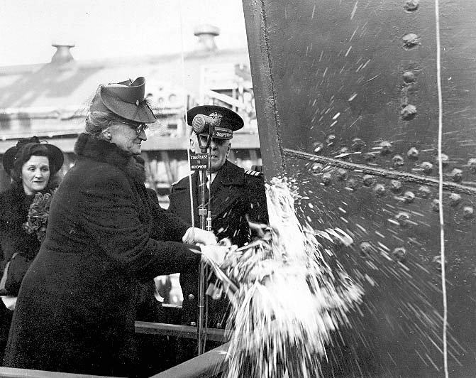 Mrs. Catherine Sheehan christens United States Navy destroyer escort USS Sheehan (DE-541) at Sheehans launched at the Boston Navy Yard, Boston, Massachusetts